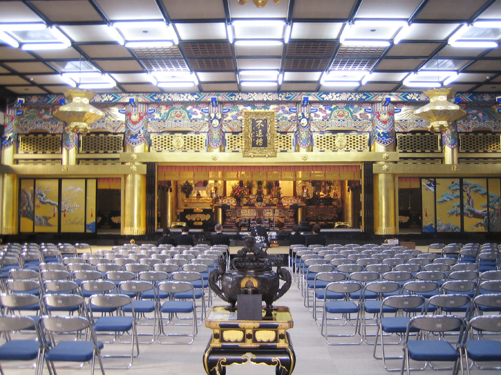 Honganji Nagoya Betsuin (本願寺名古屋別院), located at Naka, Nagoya, Aichi, Japan